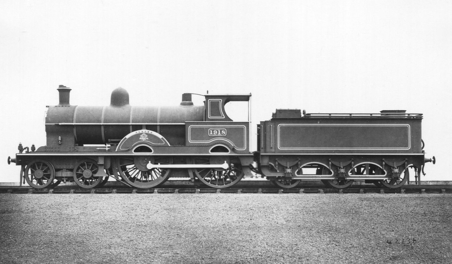 Photograph of LNWR locomotive No. 1918 'Renown'